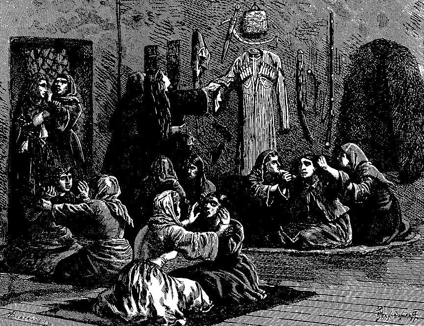 Mourning Mingrelians. Engraved by Y. Pranishnikoff. Published in 1884.